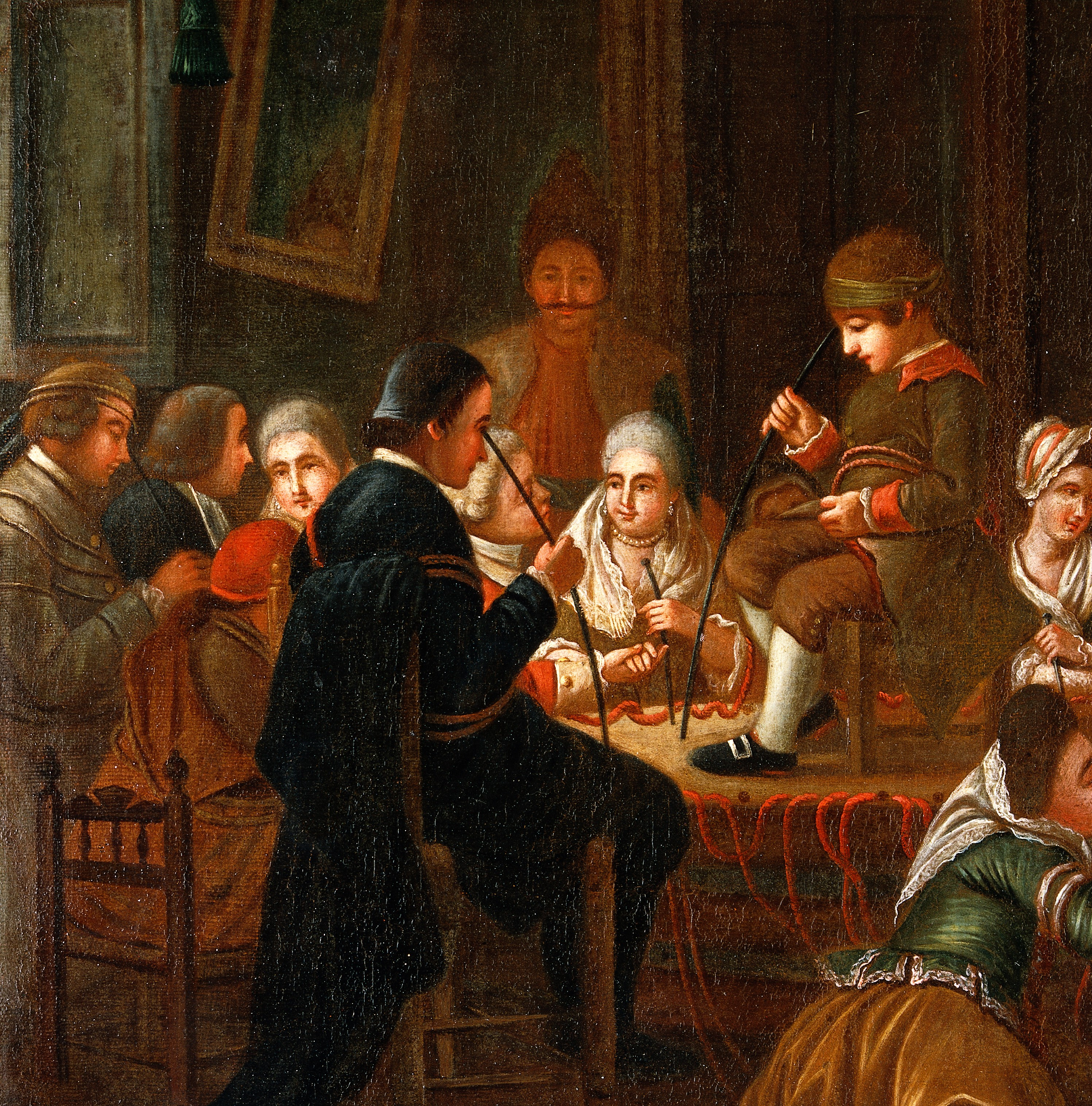 Mesmeric therapy. Detail: Ophthalmic application of mesmeric fluids. Iconographic Collections Keywords: Maria Theresia von Paradis; Franz Anton Mesmer; Claude-Louis Desrais; Mesmerism; Quackery